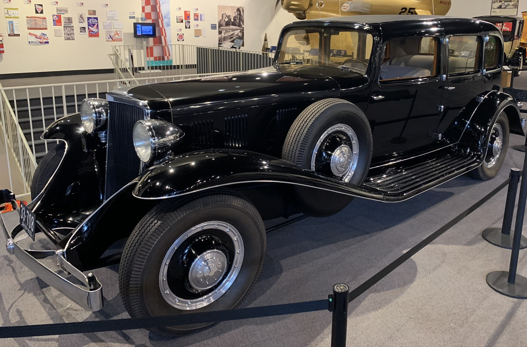 1932 Peerless at Crawford Auto-Aviation Museum, cropped to remove extraneous clutter